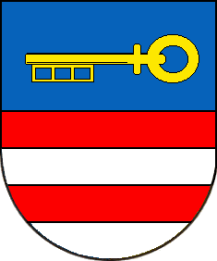 Coat of arms of Košické Oľšany, Slovakia